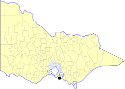 Location of the Shire of Phillip Island within Victoria.